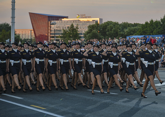 Командующий войсками ЗВО проверил готовность военнослужащих к параду в Минске, посвящённому Дню независимости Белоруссии